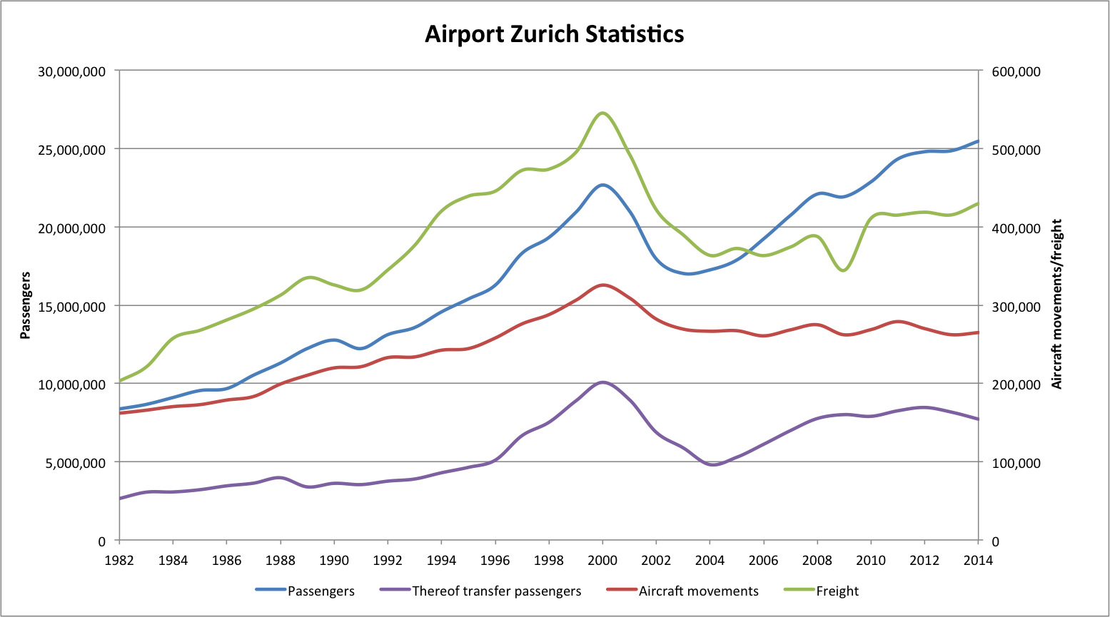 Statistics of the Zurich Airport from 1982 to 2014 incl. passengers, transfer passengers, flights handled and freight (in t).